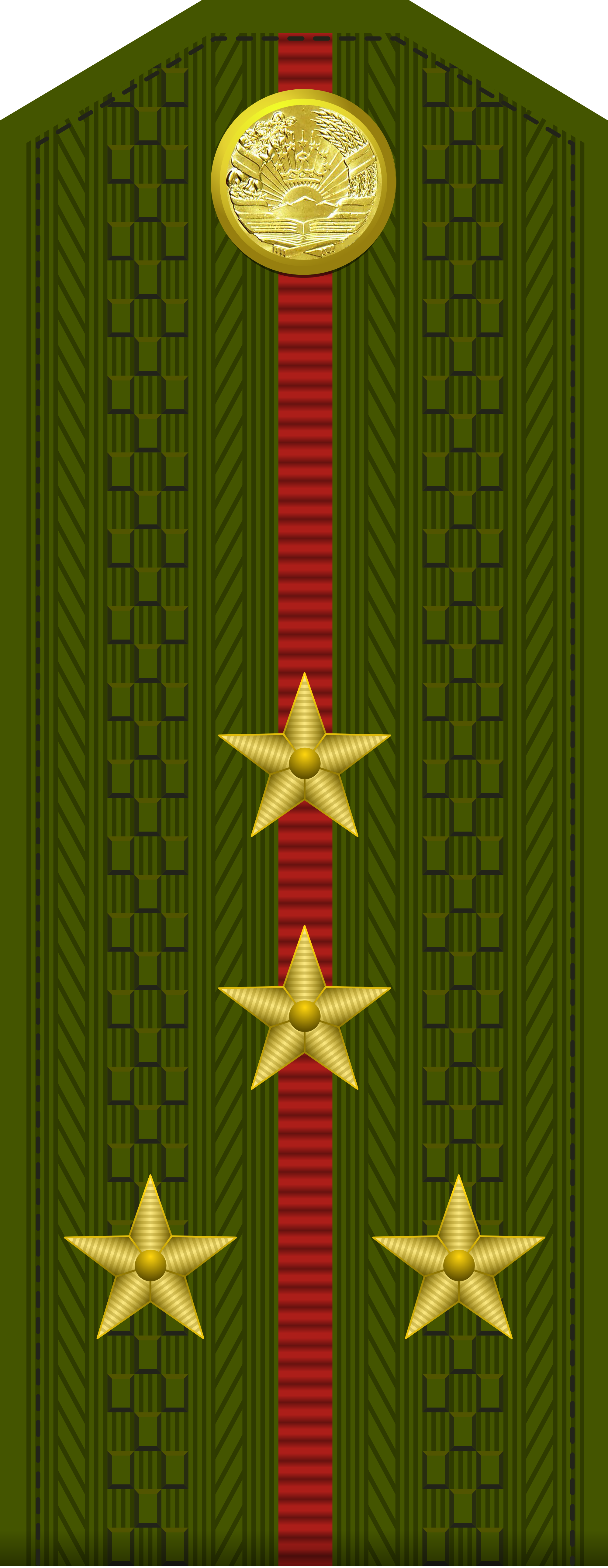 Тоҷикӣ: Rank insignia of Captain for the Tajikistan Army